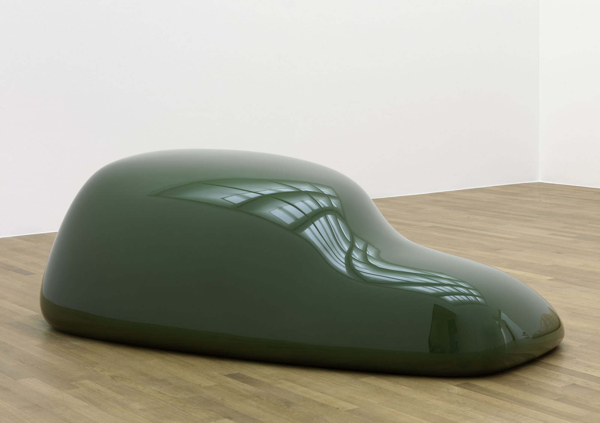 untitled, 2011 polyester resin 84 x 261 x 140 cm